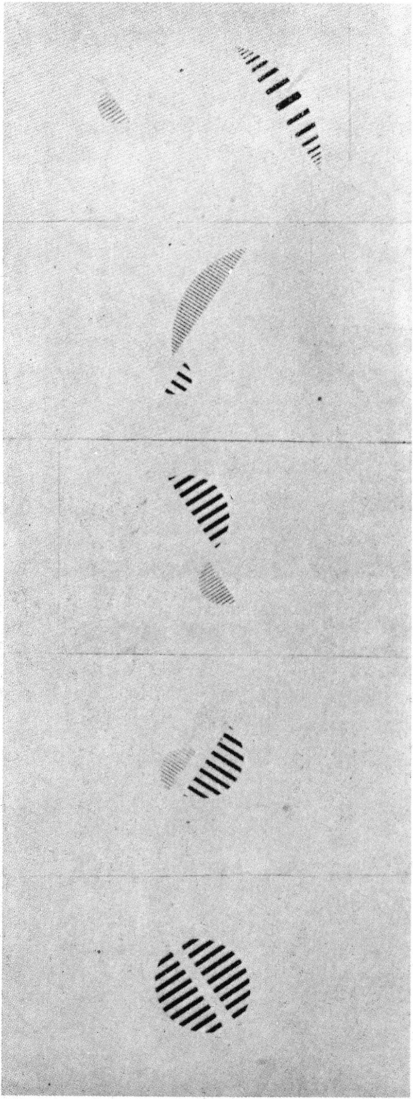 Viking Eggeling. Frames from the film 'Diagonal Symphonie'. 1921-1923. Ink on papier (?). Dimensions and location unknown.